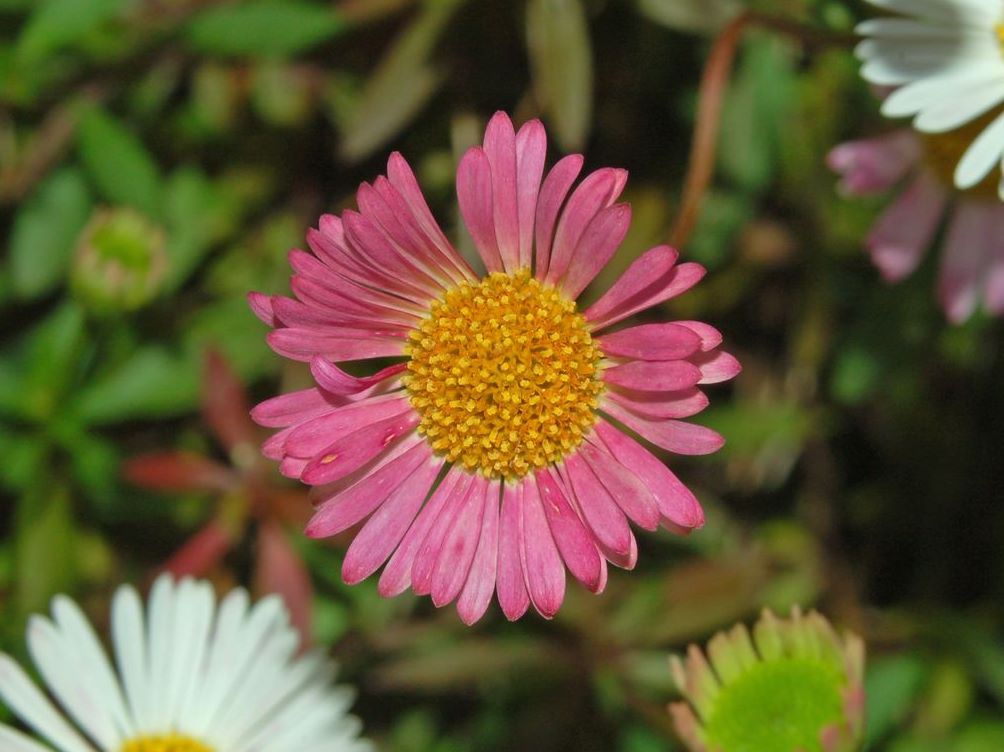 Erigeron karvinskianus - Genova, Italy